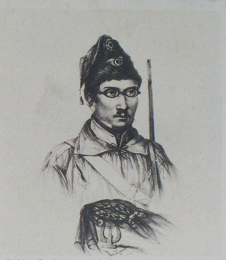 Portrait of Alexandre Dechet (alias Jenneval), a French actor and composer of the national Belgian anthem "Brabançonne"; died in Lier during the Belgian Uprising in 1830; drawing by anonymous